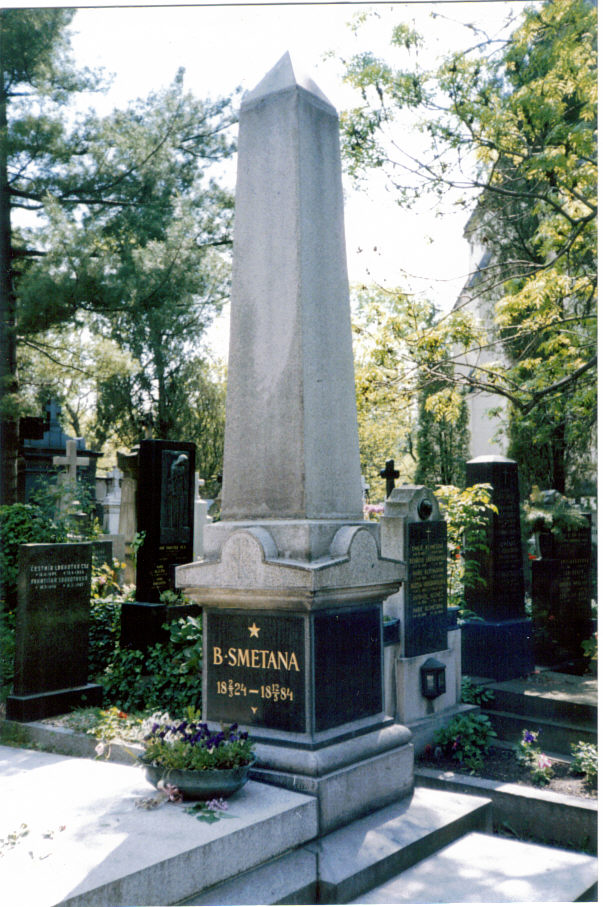 Image of Bederick Smetana's gravestone in Prague